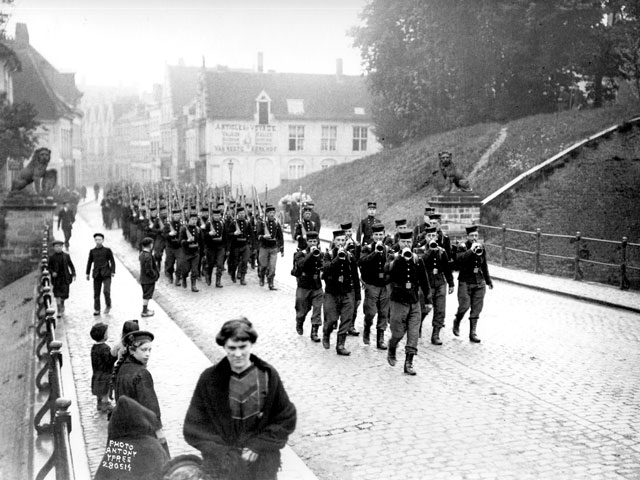 Belgian soldiers march through the Menin Gate (Meensepoort) at Ypres on 28 May 1914, just months before the German invasion of Belgium in August 1914. The old medieval ‘gate’ was by this time merely a gap in the 17th century defensive ramparts of the town from which the road ran to the town.